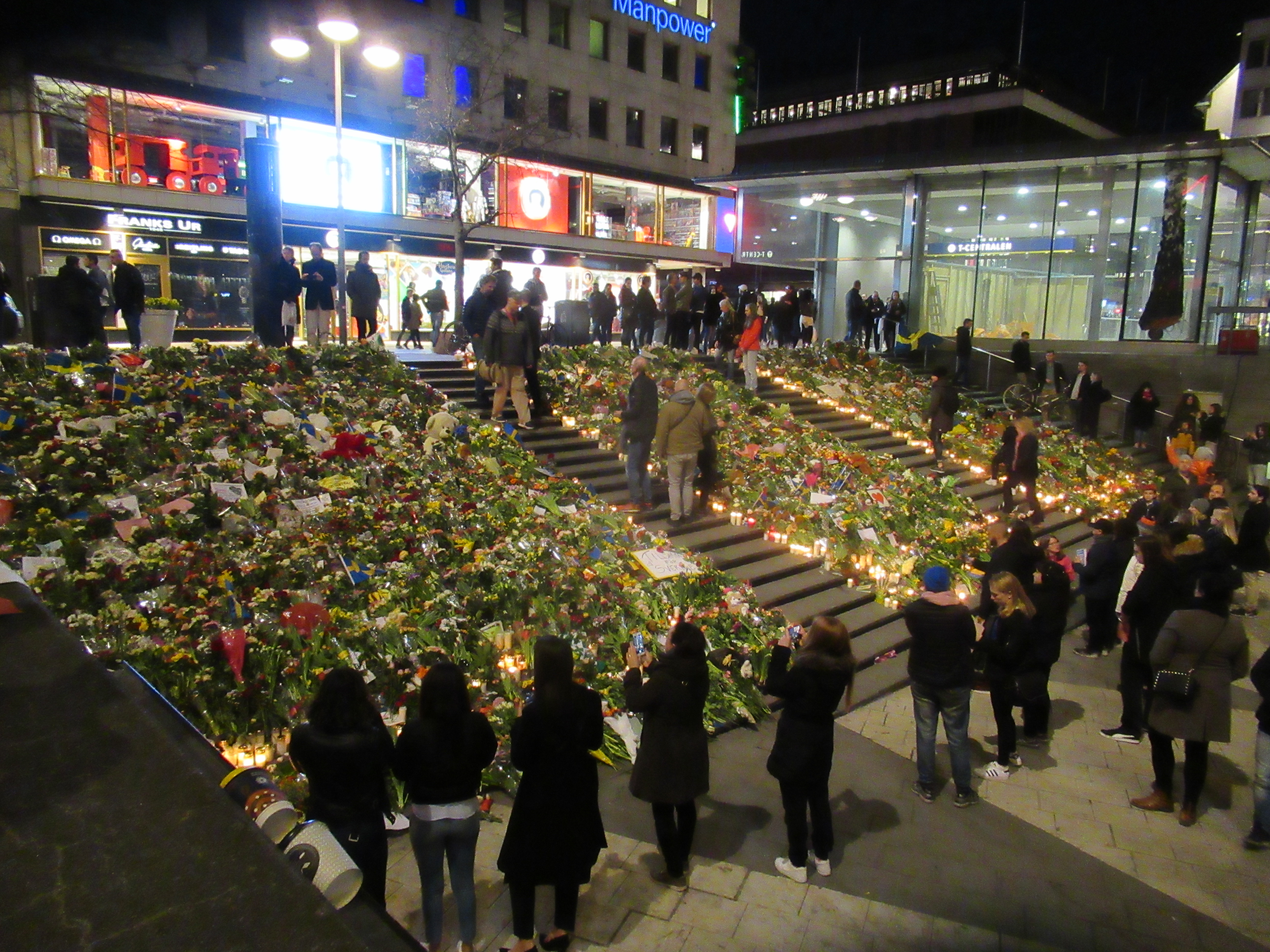 Flowers and Candles after Stockholm Attack